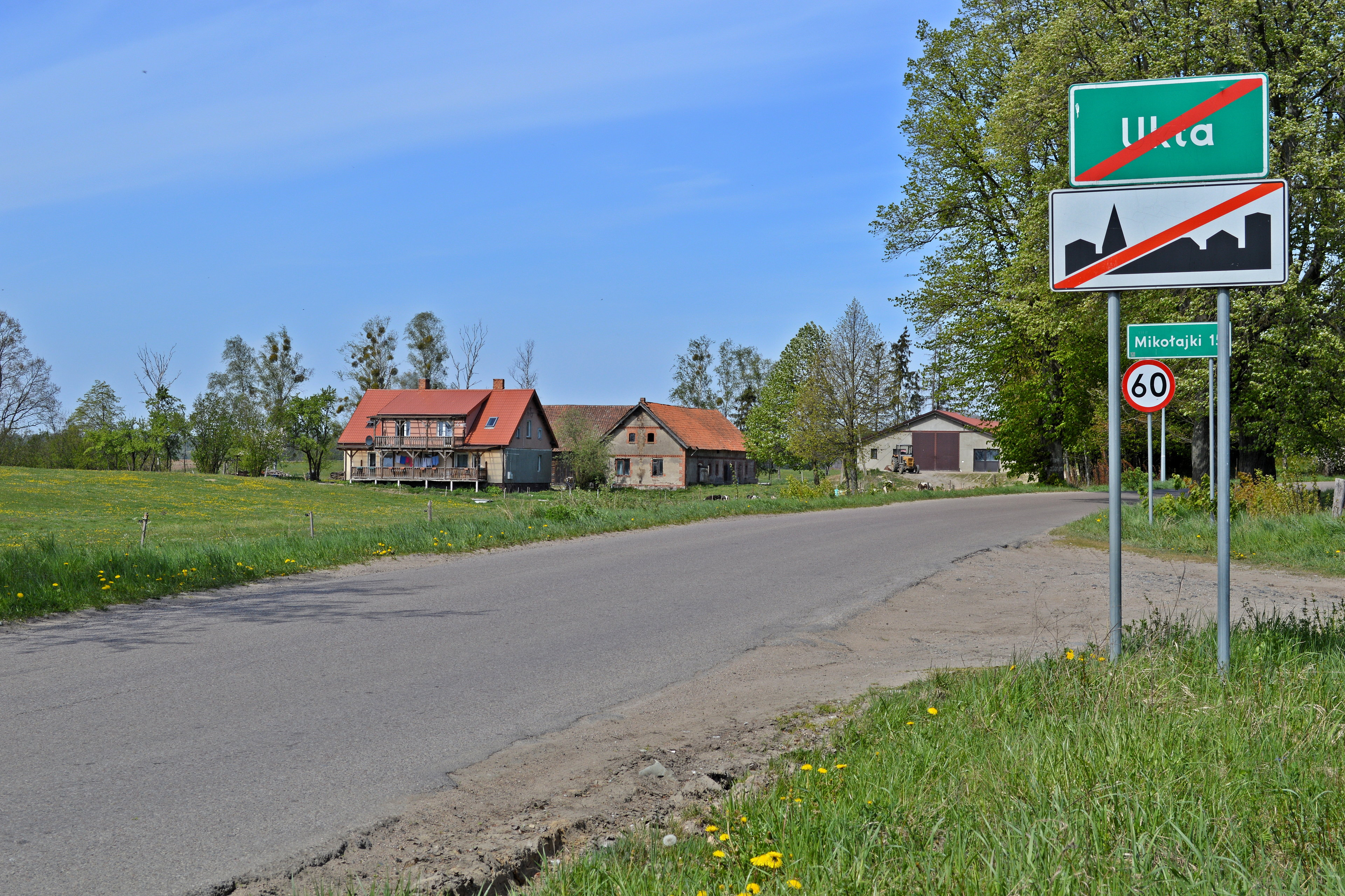 Nowa Ukta just north of Ukta, in direction Mikołajki at the Droga wojewódzka 609 road